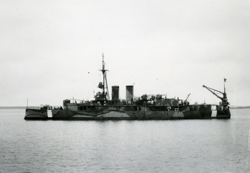 HMS Dristigheten. The original image showed a tup in front of the ship, but it has been taken away.